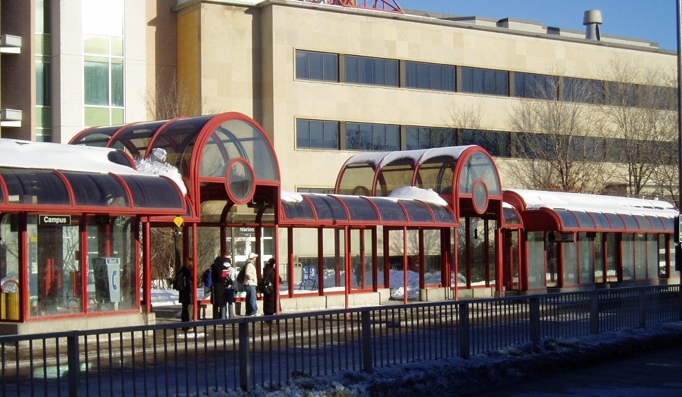 Taken by SimonP in January 2005